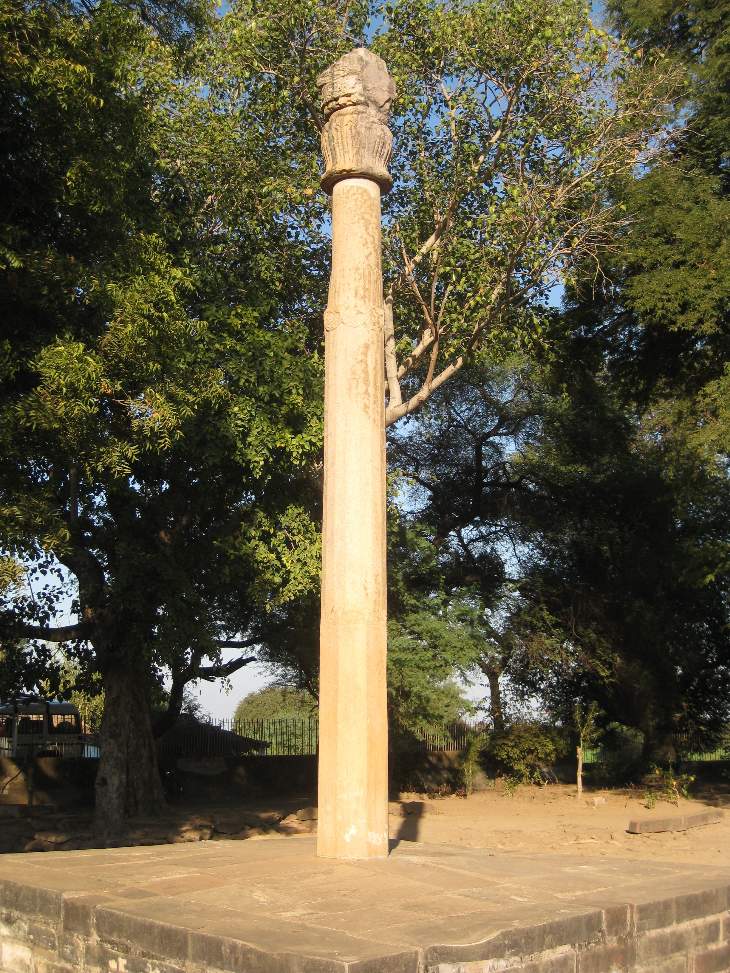 Khambaba in Vidisha. A 140 BC pillar erected by an ambassador of Antialkidas, the Indo-Greek king of Taxila.